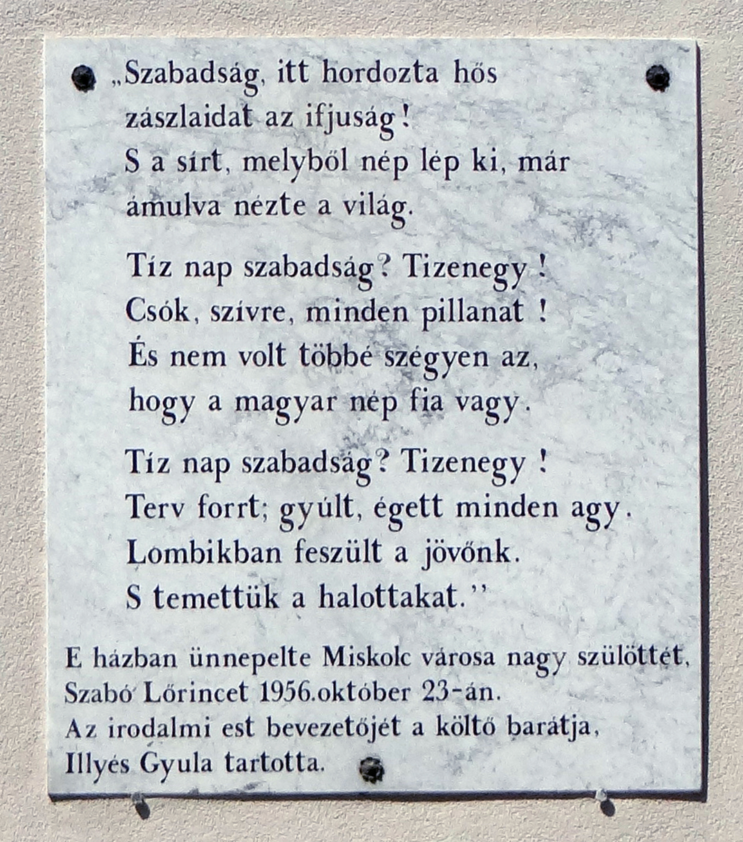 Plaque in 11 Kossuth Street, Miskolc